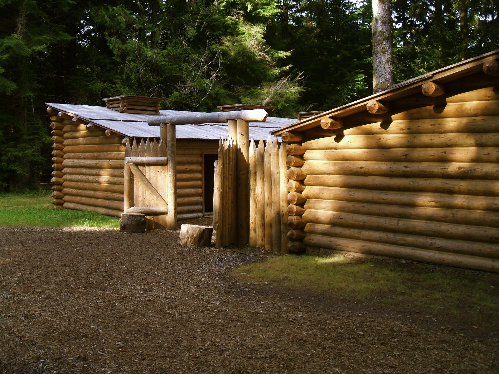 Replica of Fort Clatsop. The Corps of Discovery stayed on this site through the winter of 1805-1806, living largely off trading with the local American Indians. The Corps of Discovery was a big coup for American empire-building, but it signalled the beginning of hardship and danger for the American Indian peoples of the west. Lewis & Clark National Historic Park, Oregon & Washington